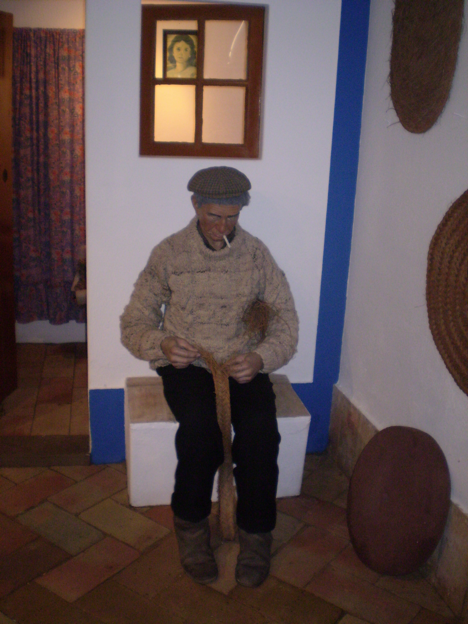 Mannequin of a typical southern portuguese man, preparing esparto for crafts. It is part of a typical southern portuguese house model in the Dr. José Formosinho Museum, in Lagos, Portugal.